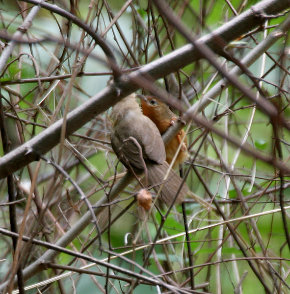 Tawny-bellied Babbler Dumetia hyperythra - Hindi: Shah dumri, Pun: Geru dhidi serhari, Guj: Karamadi laledo, Futki laledi, Te: Pandi-jitta, Mal: Chinna chilappan, Sinh: Batechia, Parandel-kurulla - at Ananthagiri Hills, in Rangareddy district of Andhra Pradesh, India.